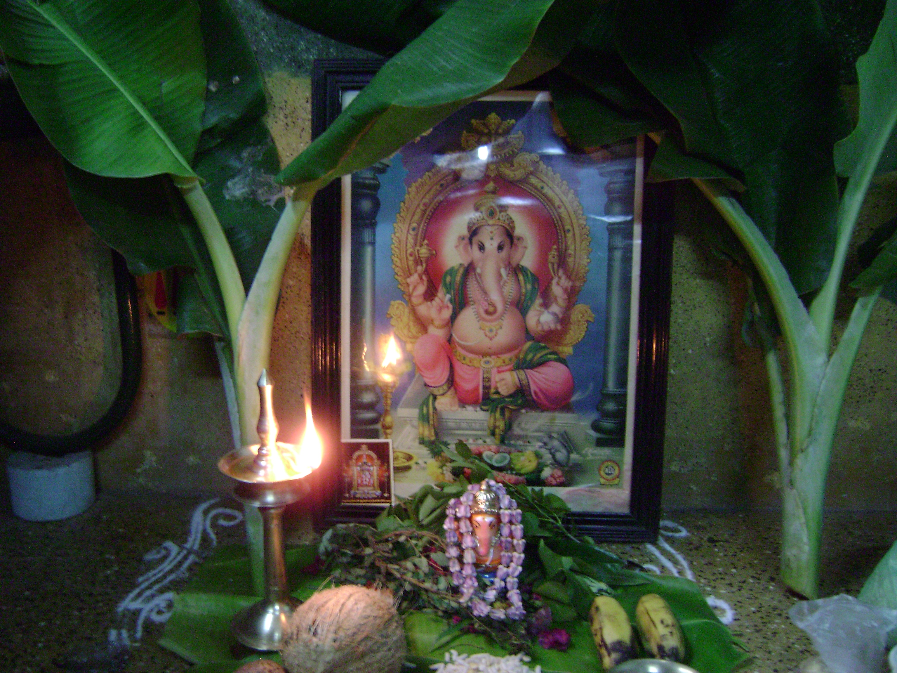 Vinayak Chadurti Pooja at Home 2015